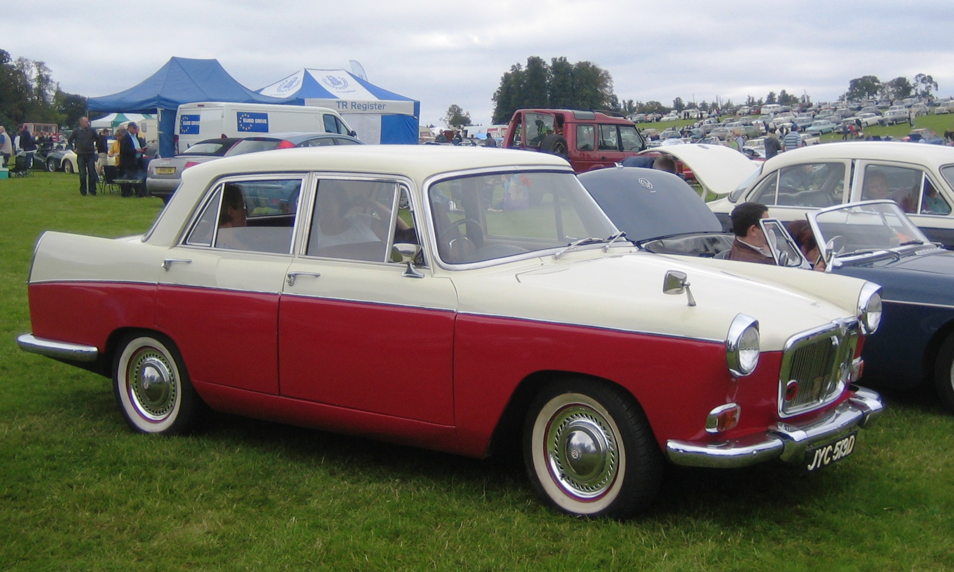 MG Magnette after it had become one of the BMC 1.6 litre Farina siblings